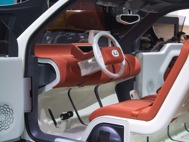 Ford Model U at 2003 Detroit Auto Show.